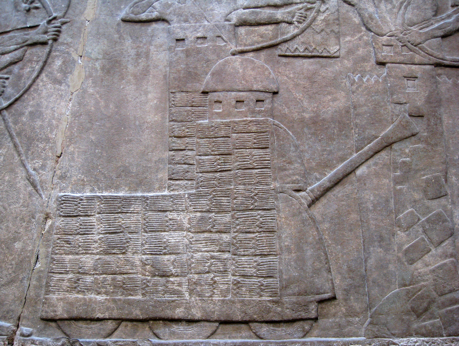 A large wheeled Assyrian battering ram with an observation turret attacks the collapsing walls of a besieged city, while archers on both sides exchange arrows. From the North-West Palace at Nimrud, about 865-860 BC; now in the British Museum.